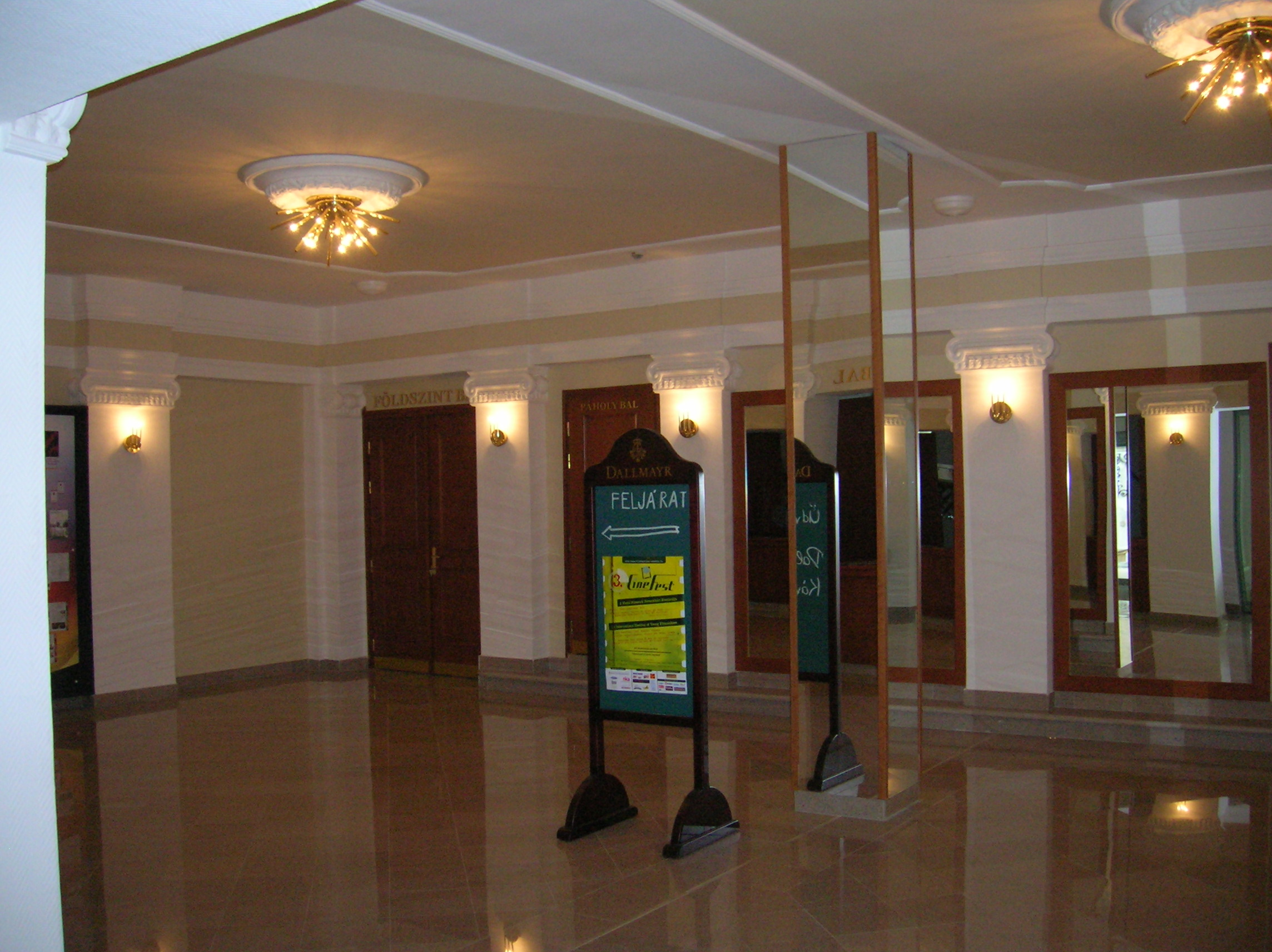 House of Arts, Miskolc, Hungary.